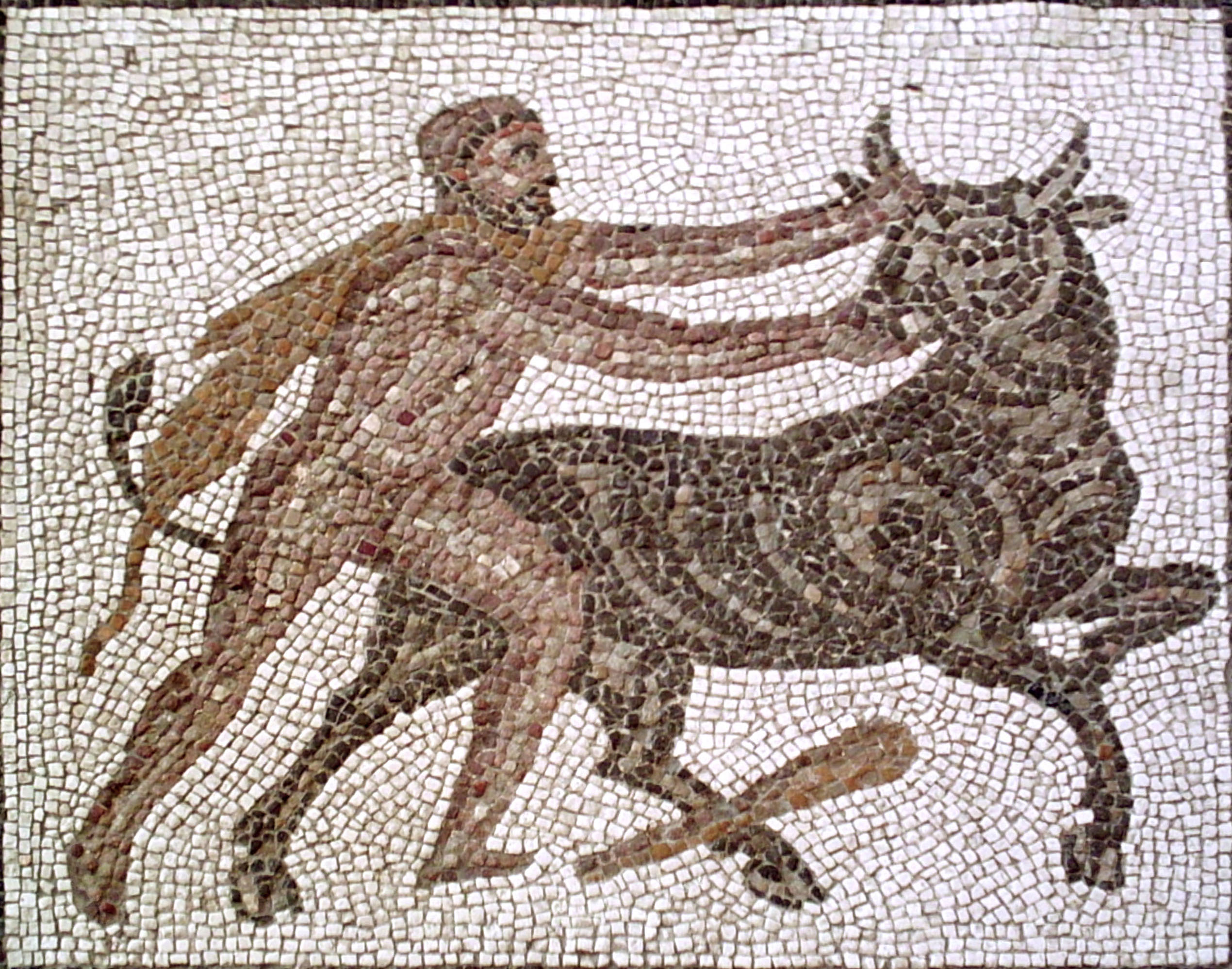 Hercules capturing the Cretan Bull. Detail of The Twelve Labours Roman mosaic from Llíria (Valencia, Spain).